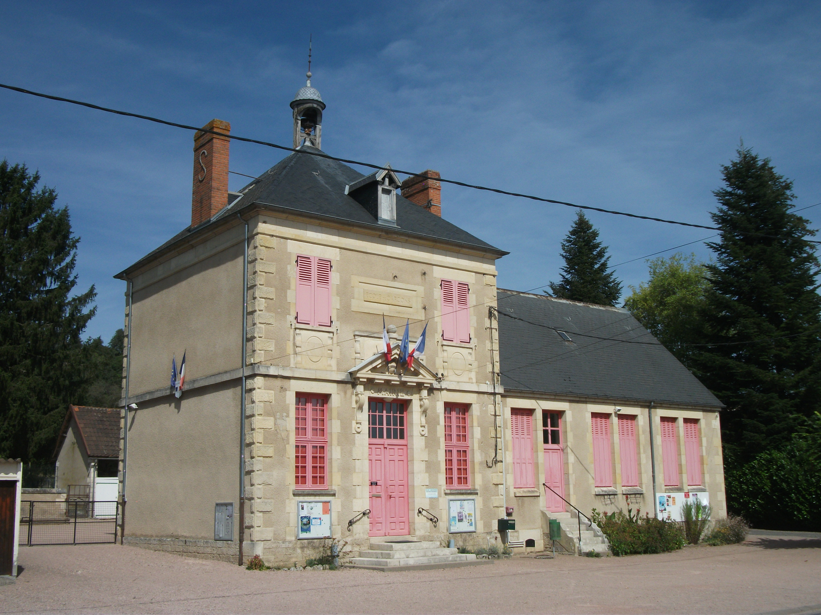 Town hall of Sanssat, Allier, Auvergne-Rhône-Alpes, France [11739]